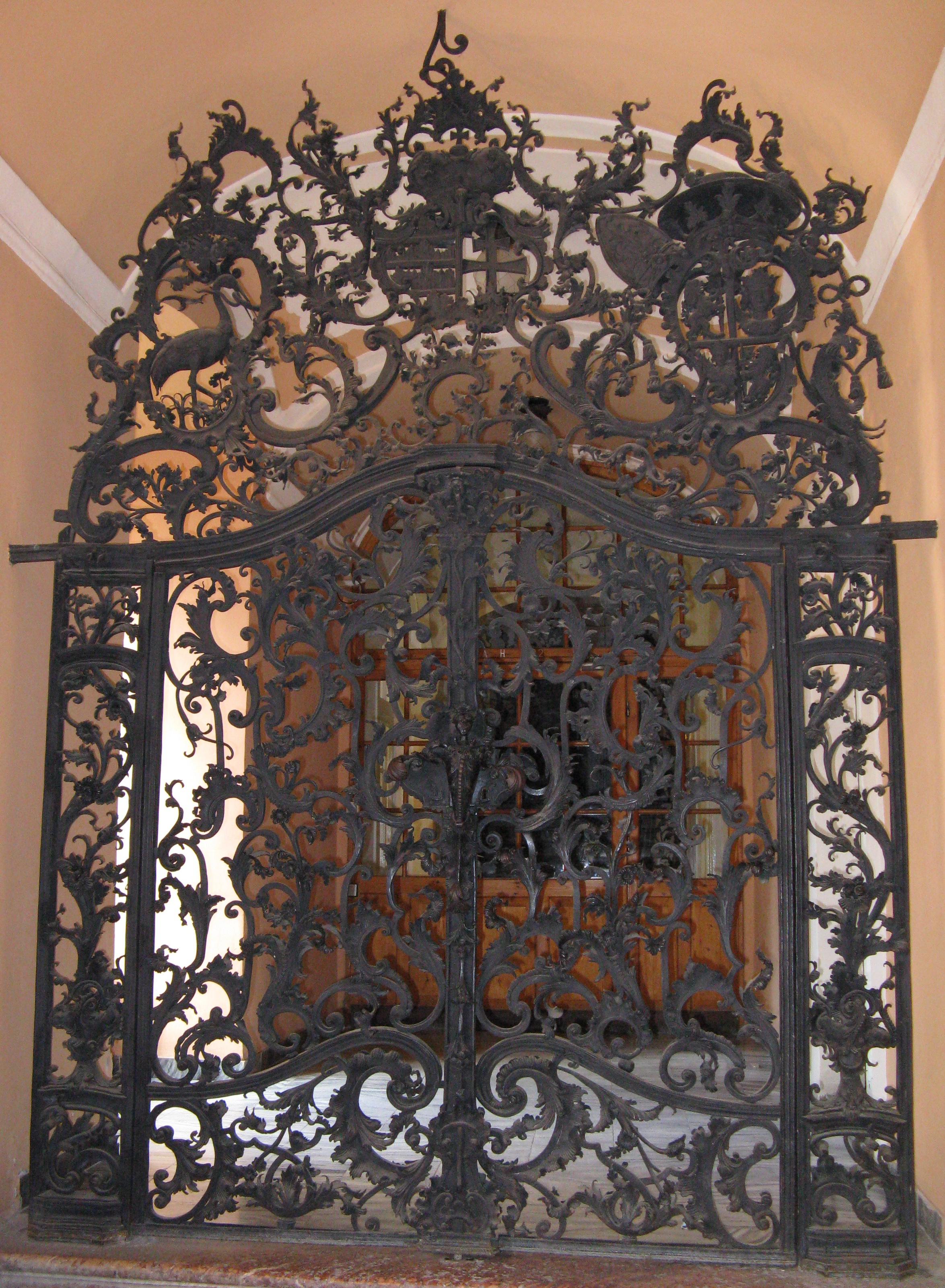 Gates of Fazola Henrik, Eger